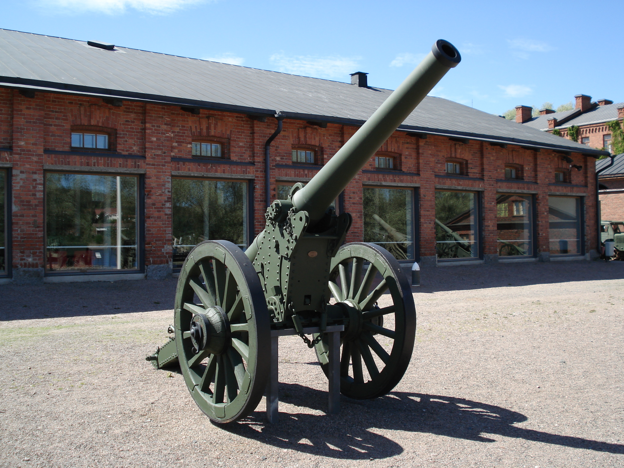 French 120mm Cannon mle 1878-1916 Long, used by Finland under designation 120 K78-16, displayed in Finnish Artillery Museum. (see [1])